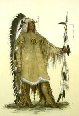 George Catlin's painting of Mah-to-toh-pe or the Mandan Chief, Four Bears. Circa en:1833. Museum of Nebraska Art